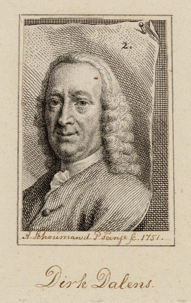 From the sourcesite: Dirk Dalens (1658-1688). Landscape painter. Size: 61x42 mmm. Date: 1751. Source: Collection drawings and prints. Creators: Pieter Tanje (engraver) and A. Schouman (drawing). File number: 010097008349